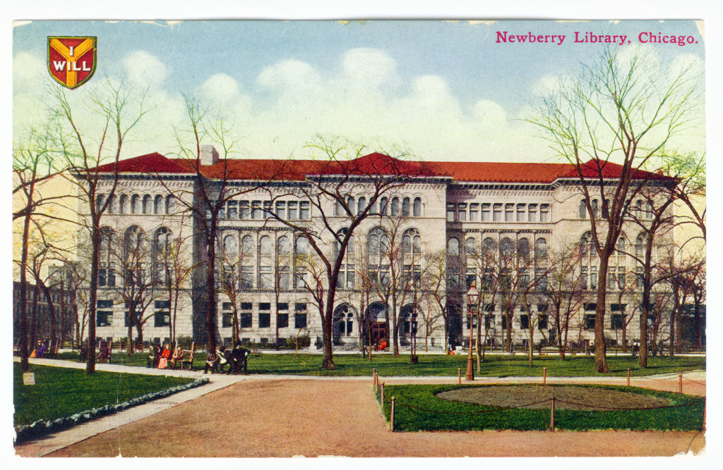 Postcard of the Newberry Library in Chicago from Washington Square (aka Bughouse Square) c. 1910 from the "I Will" series of postcards, Acmegraph Company, Chicago, ca.1910.